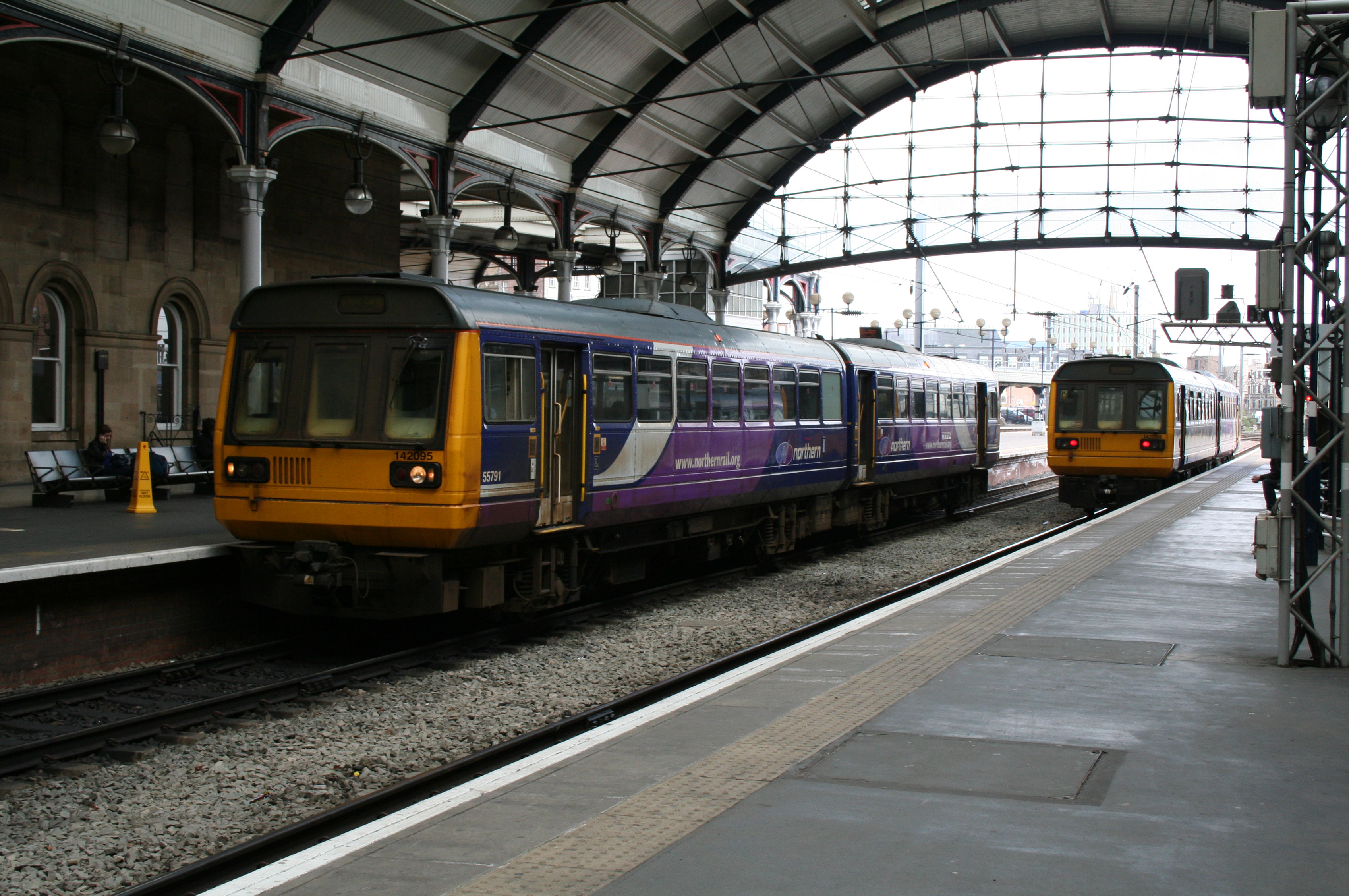 Newcastle Central Station